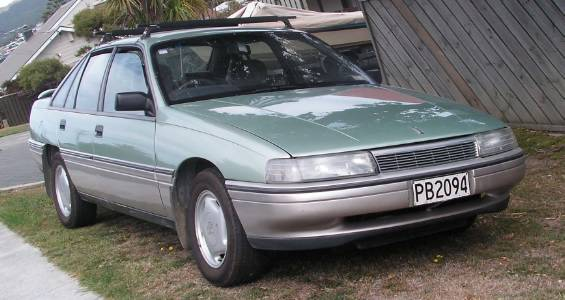 1990 Holden Calais (VN), photographed in New Zealand. This is the pre-update model.